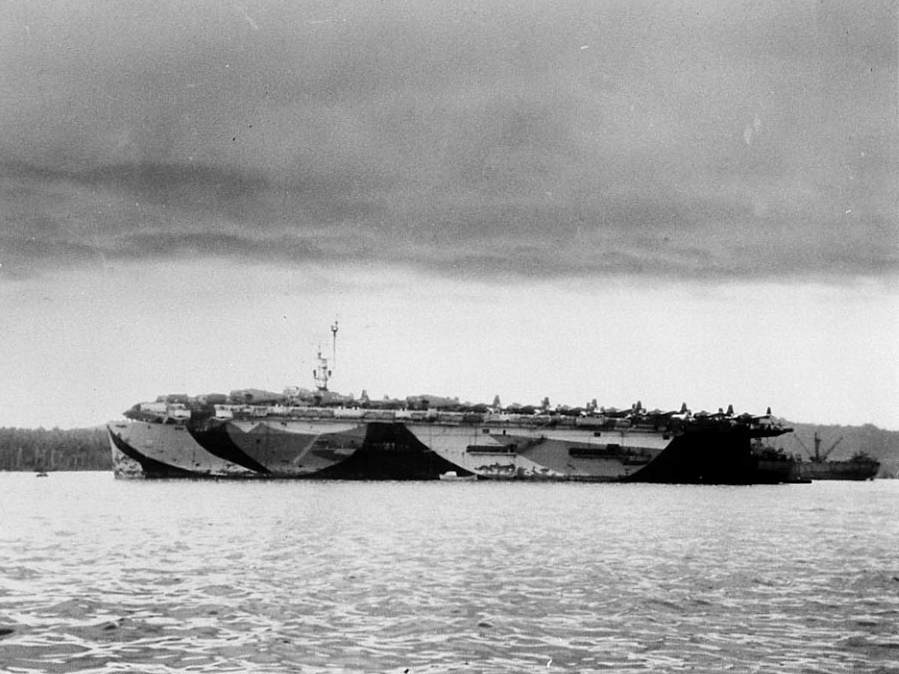 The U.S. Navy escort carrier USS Marcus Island (CVE-77) in a South Pacific port, 17 June 1944. The airplanes parked on her flight deck from amidships to the stern appear to be Interstate TDR-1 assault drones. She is probably delivering elements of Special Task Air Group One (STAG-1), which employed TDR-1s in Solomons area combat operations during September and October 1944. Other planes on board appear to be TBMs, which were used for drone control. The ship is painted in Camouflage Measure 32, Design 15A.